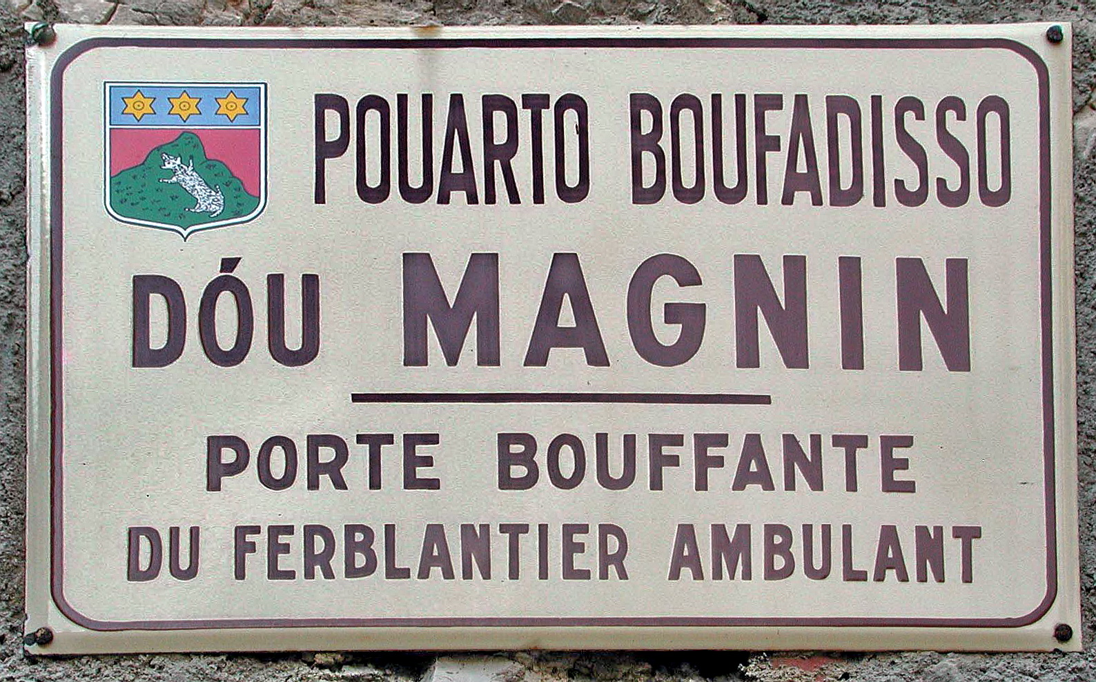 Var(Mons) Provençal street signs